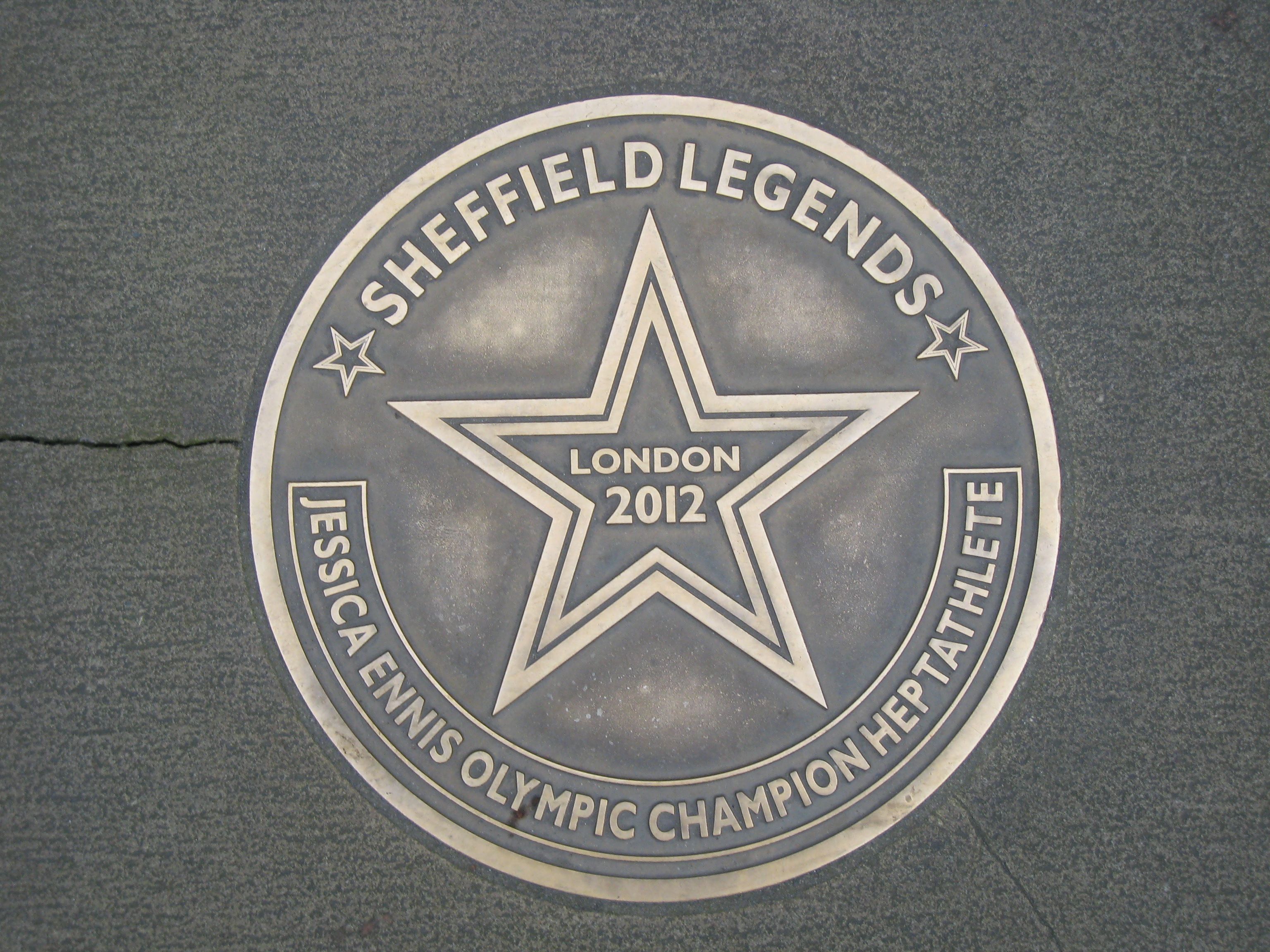 Commemorative star in the pavement outside Sheffield Town Hall: a "walk of fame" for people associated with the city. Jessica Ennis.